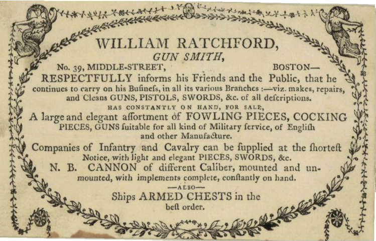 William Ratchford, gun smith, no. 39 Middle-Street, Boston